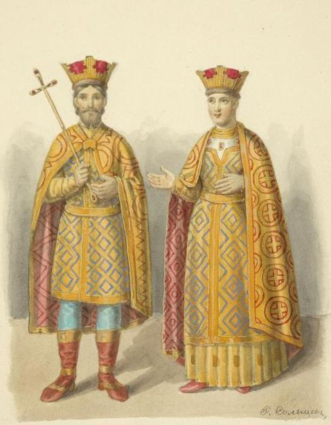 Vasily I of Moscow and Sophia of Lithuania